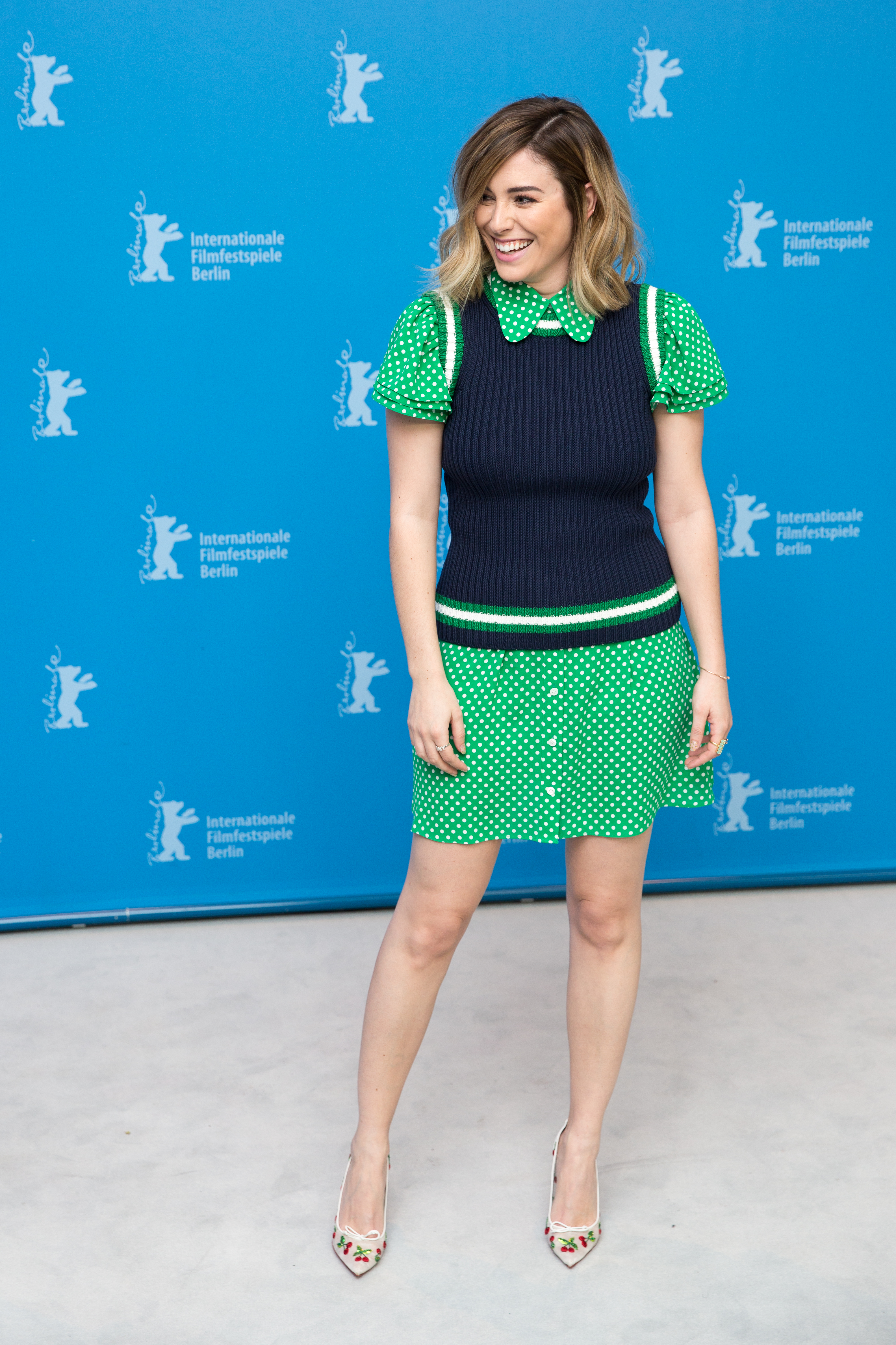 The actress Blanca Suárez presenting the movie The Bar at the Berlinale 2017